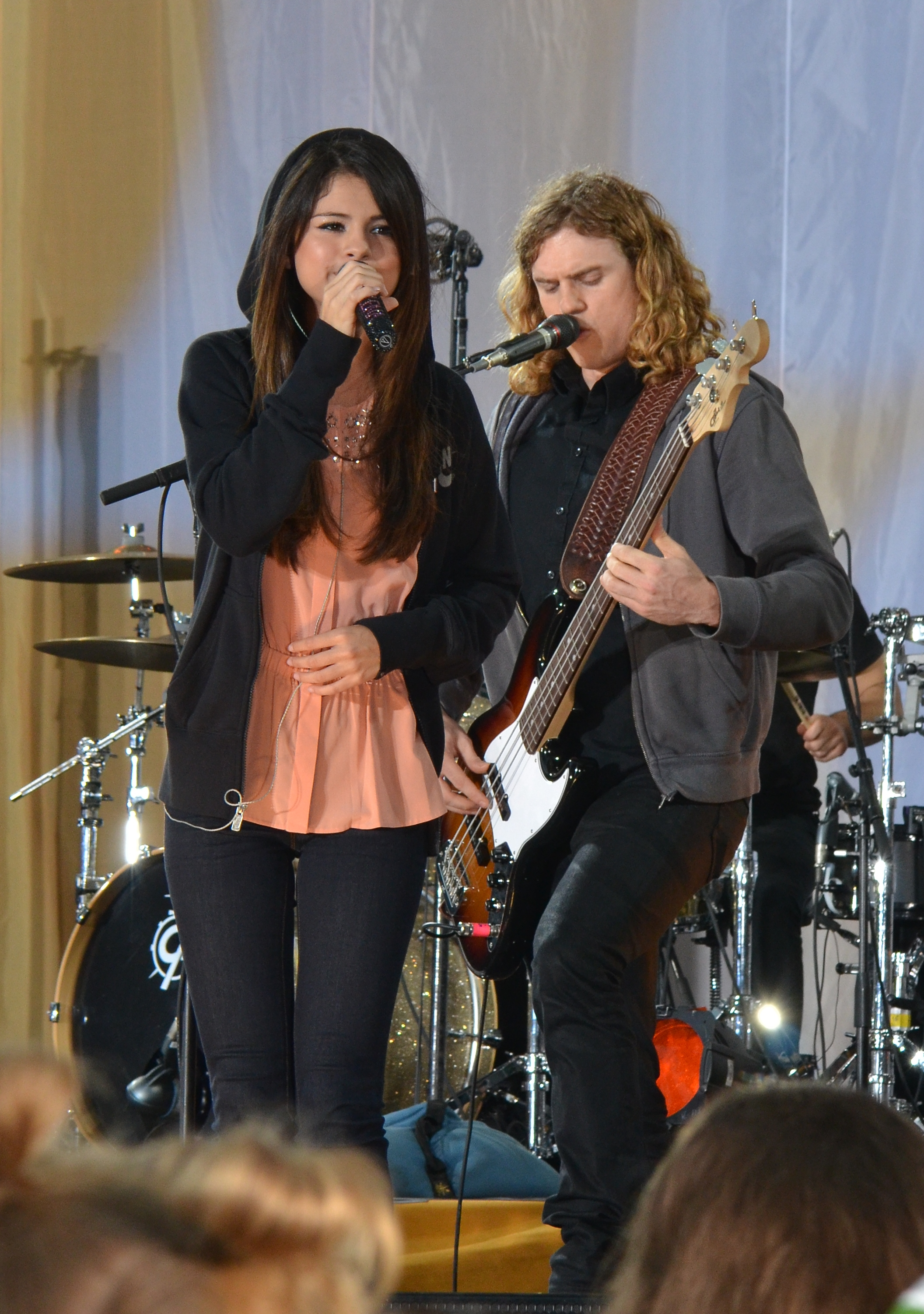 Selena Gomez & the Scene performing Naturally during soundcheck on Good Morning America in June